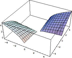 Geometric mean of two variables. Plotted with Mathematica.